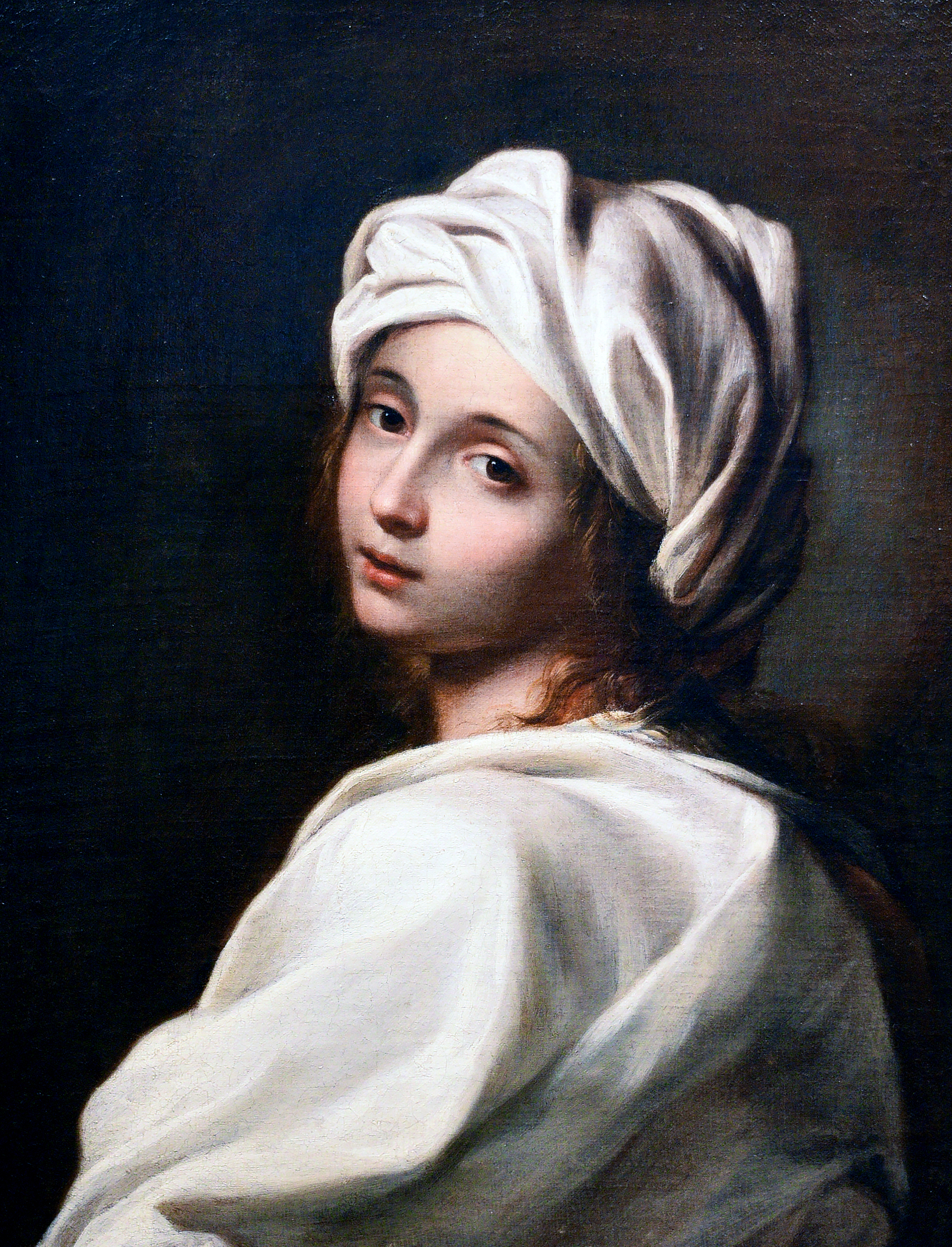 A portrait of Beatrice Cenci variously attributed to Guido Reni or Elisabetta Sirani.